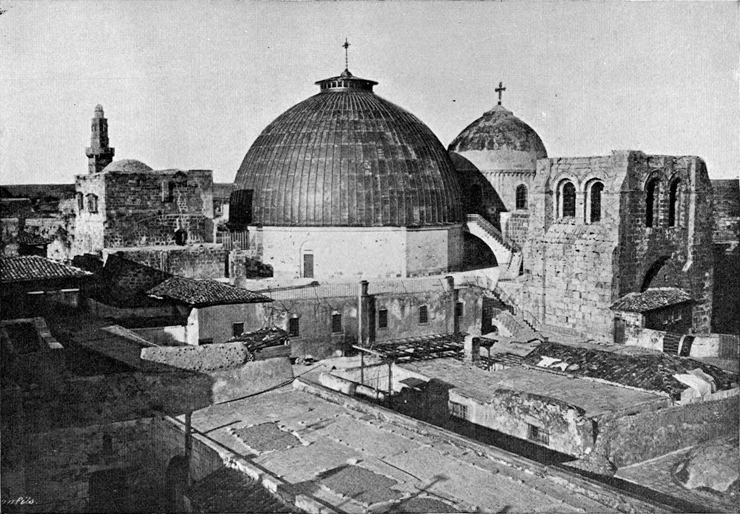 Photograph of the dome of the Church of the Holy Sepulchre